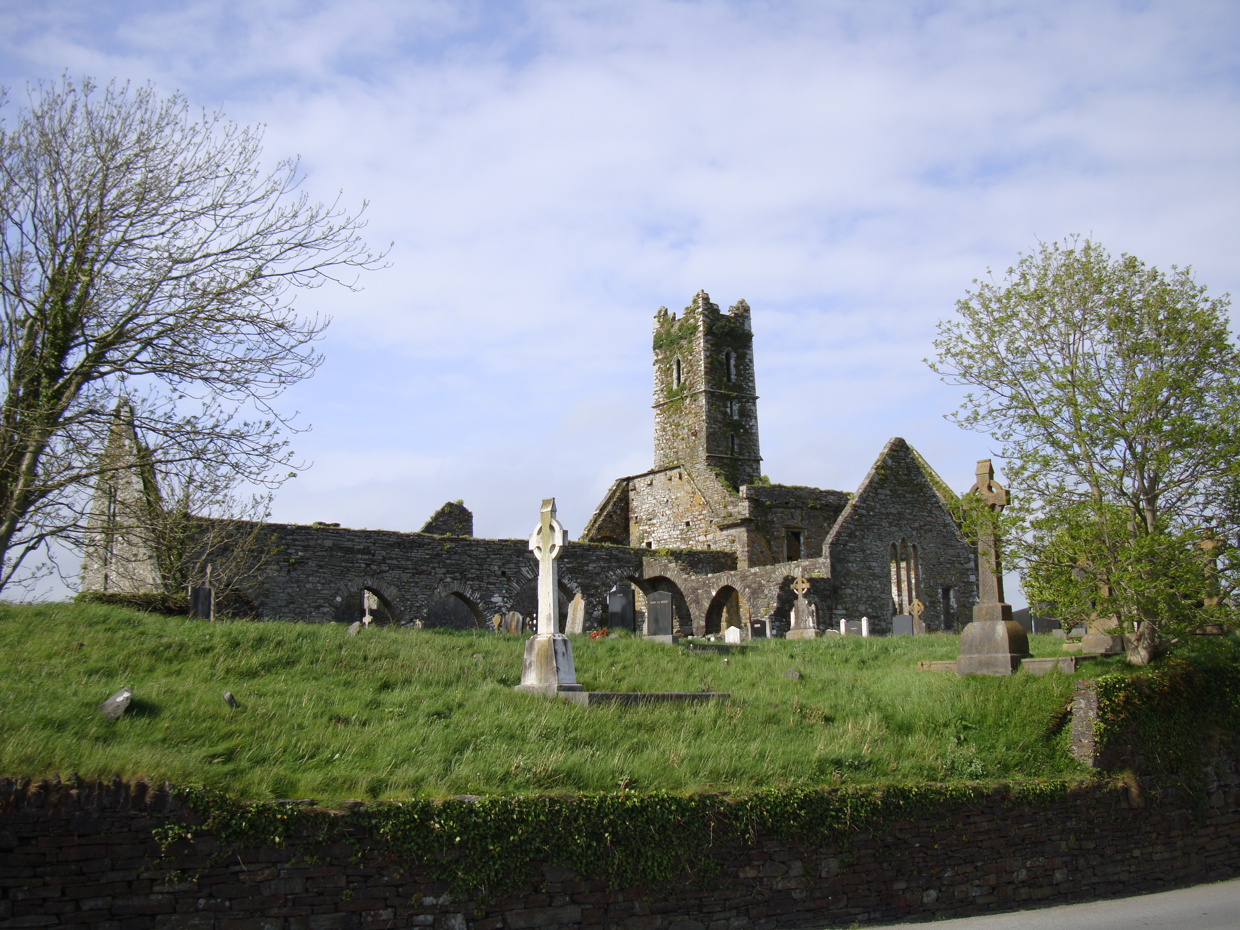 Photograph of Timoleague Friary, Co. Cork, Republic of Ireland